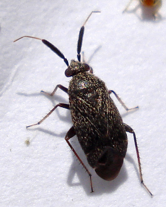 Atractotomus mali On: Grass Location: Lincoln City Site: Backies field